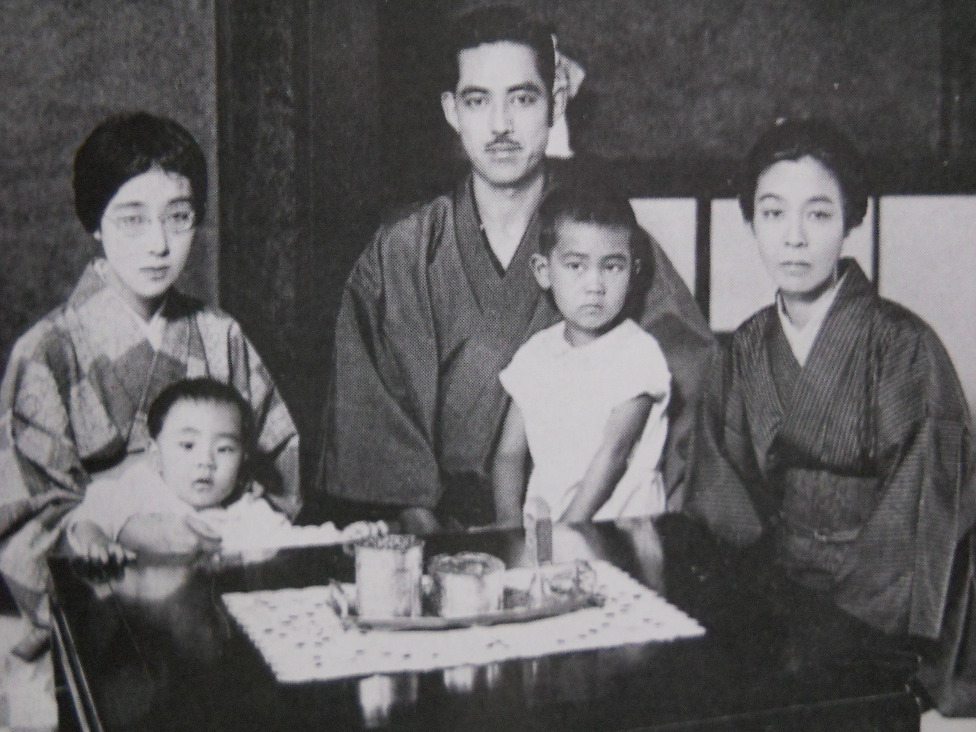 Satou Family1